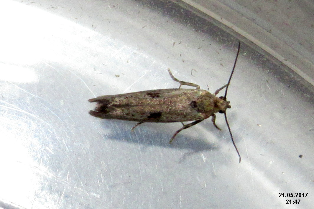 ... could be anything, but cf. UK 22.004 - 0449c Olive moth - jesik oliwkowiec.